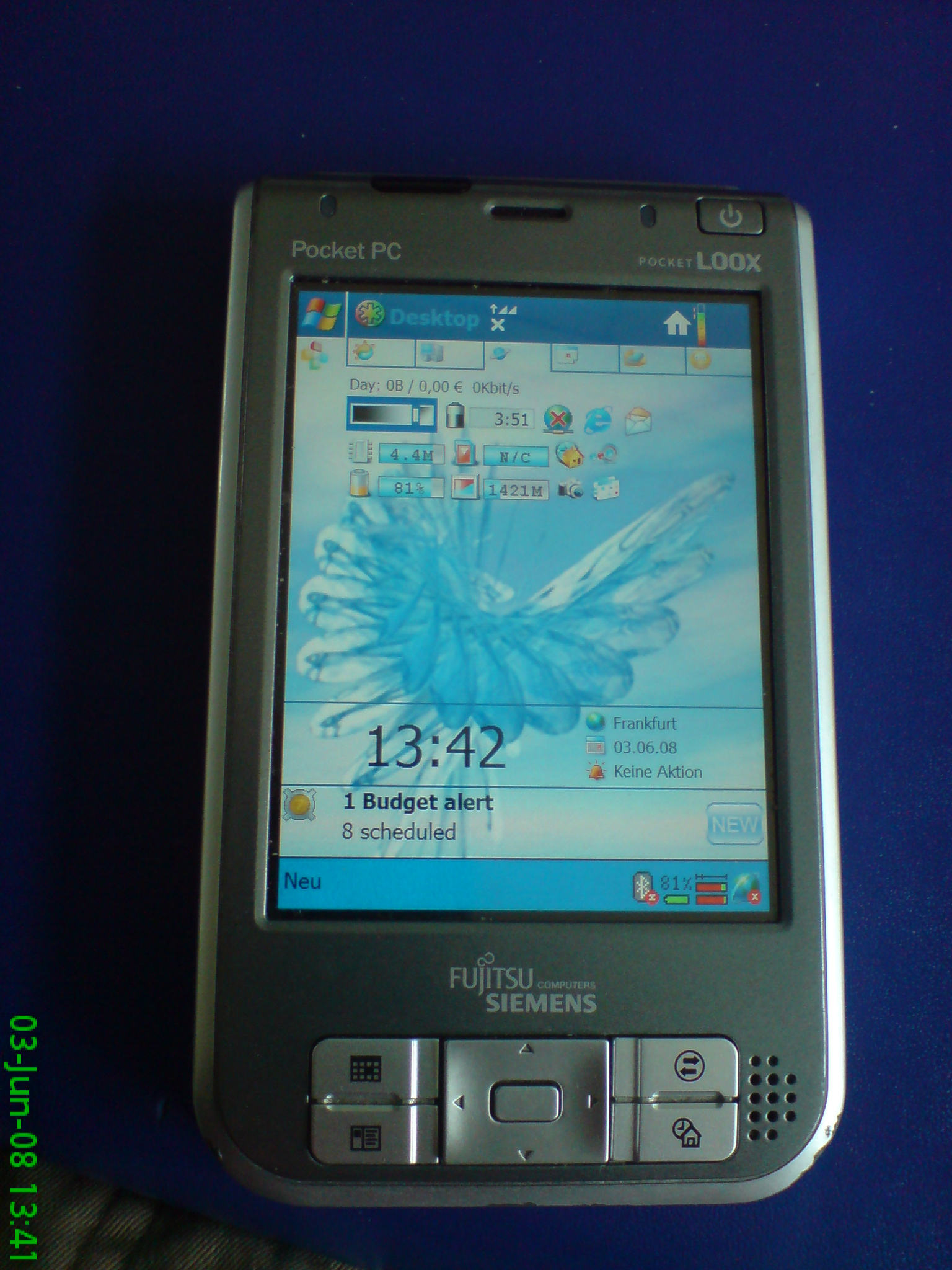 FSC Loox 720